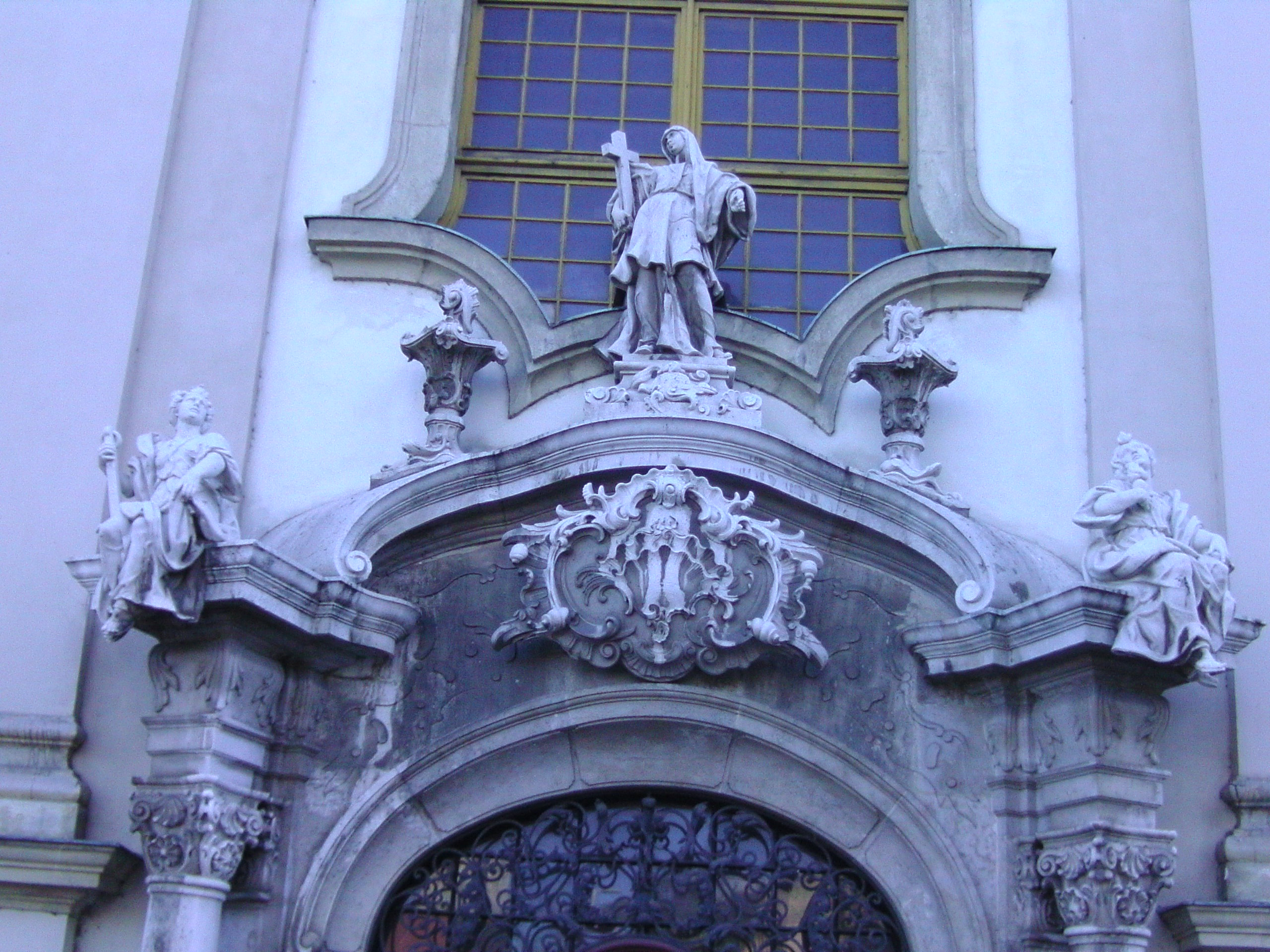 Main entrance of the St. Anne Parish in Upper Watertown. (Szent Anna templom), "Faith, Hope" and "Charity" status by József Lénárd Wéber. - Budapest I. Batthyány tér 7